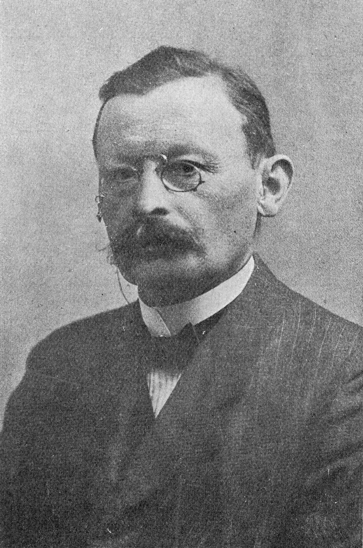 Ludwig Krause (1863-1924)